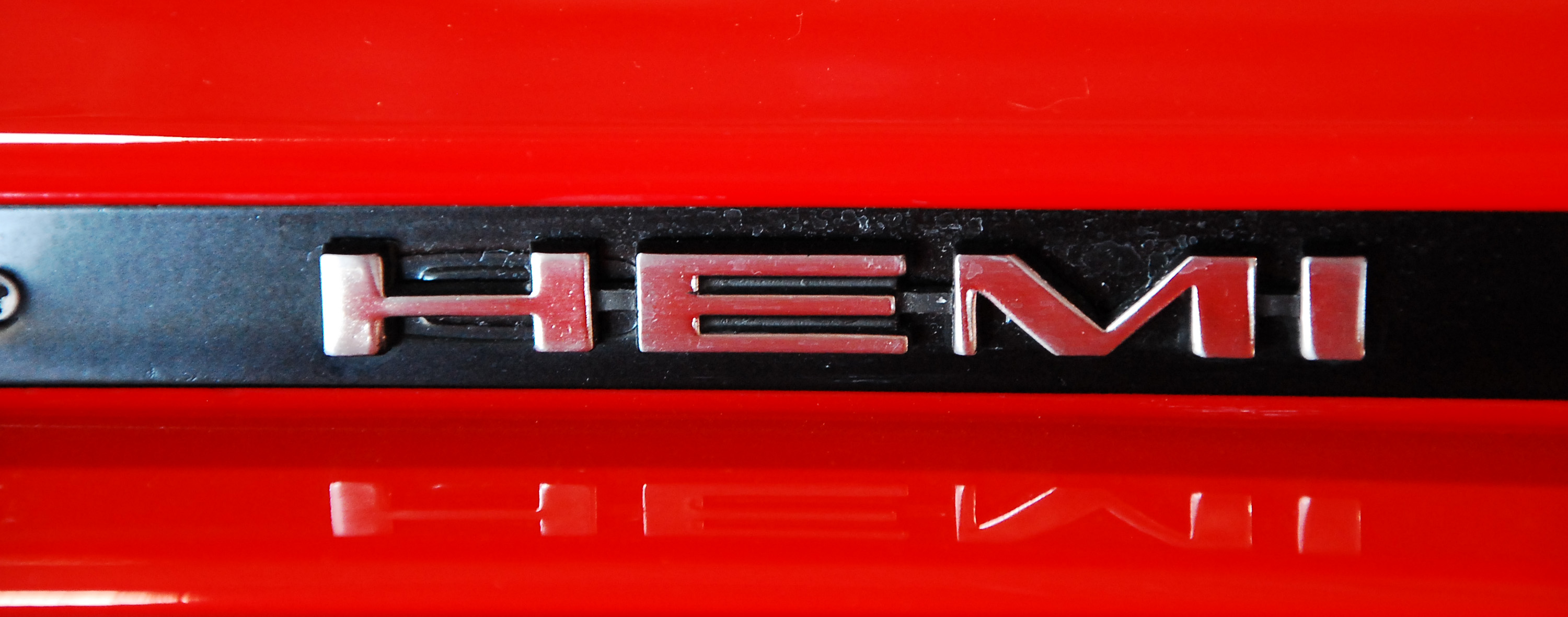 Logo of Hemi car engine